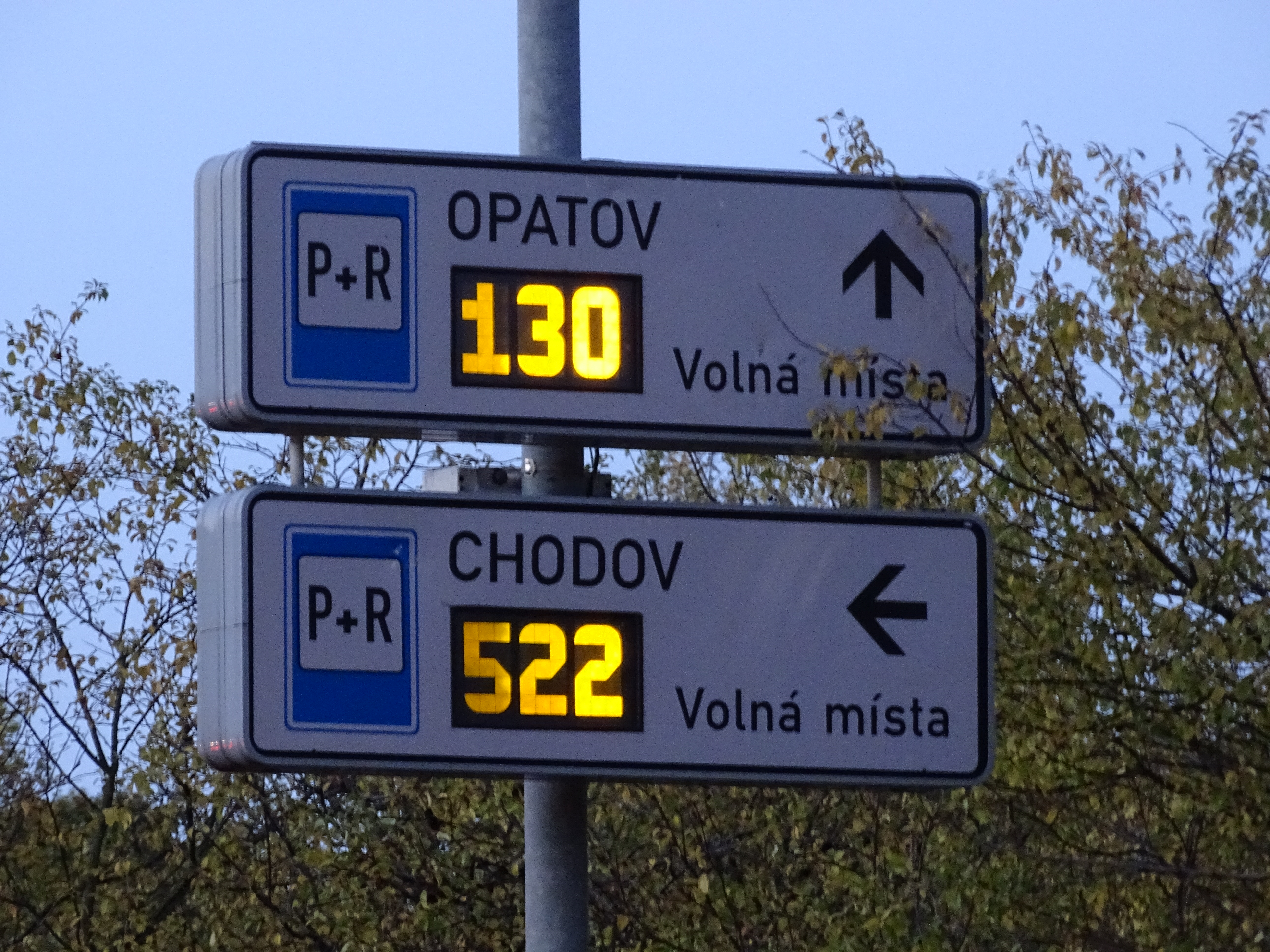 Prague-Šeberov, Czechia, K Hrnčířům street, P+R occupancy signs.